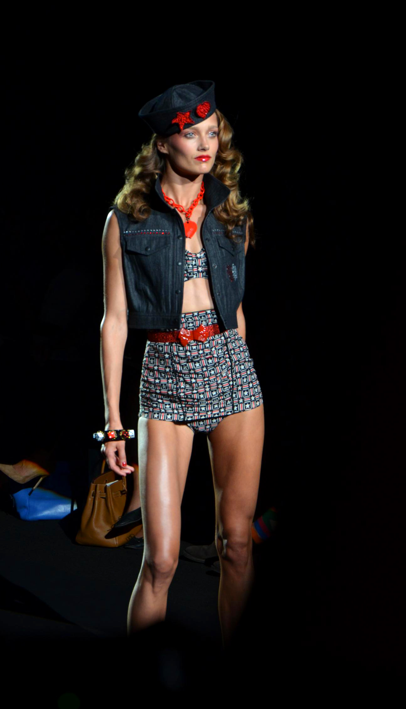 Karmen Pedaru models at Anna Sui 2011